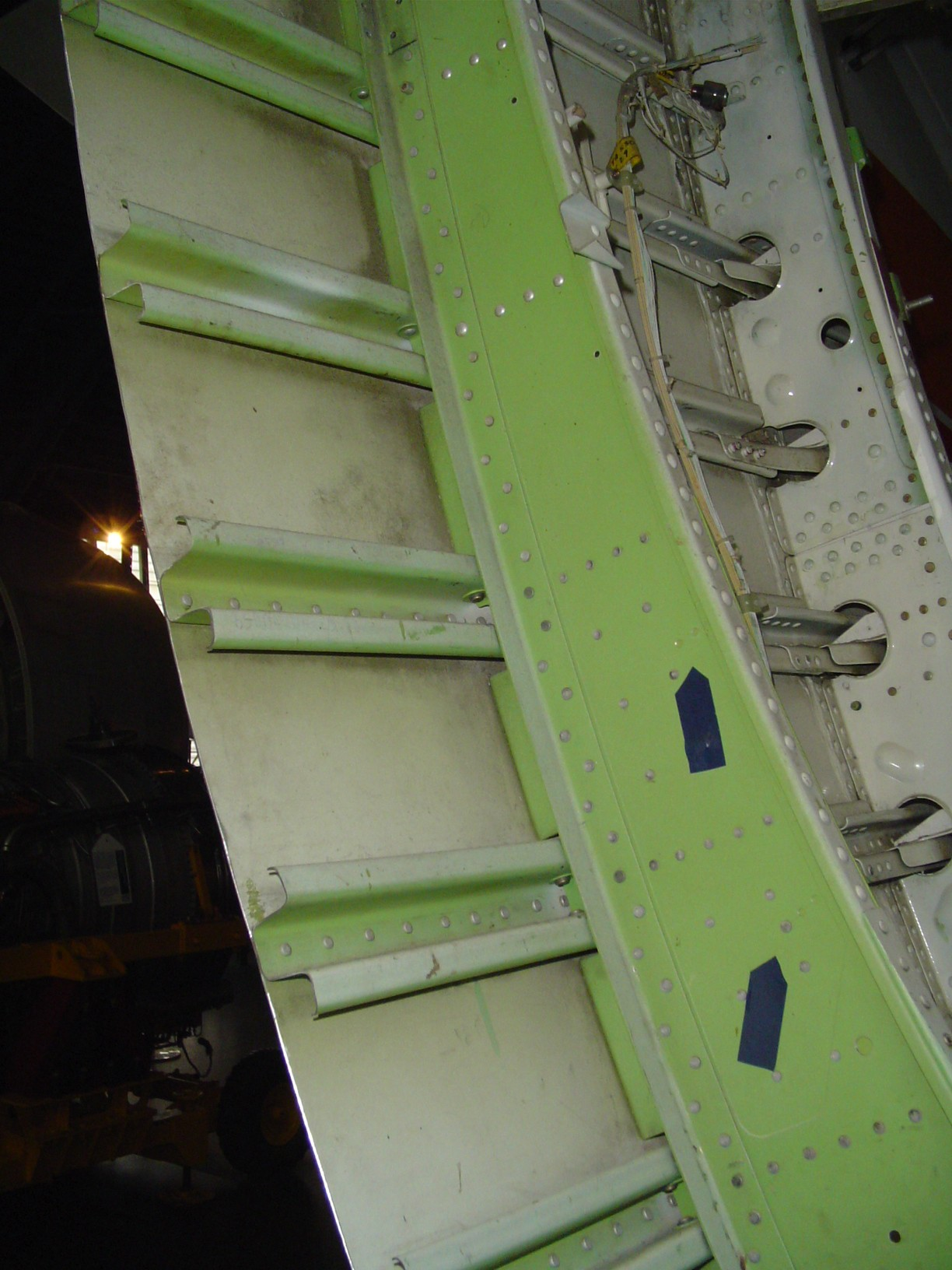 Fuselage section of a Boeing 747, taken at the Science Museum in London